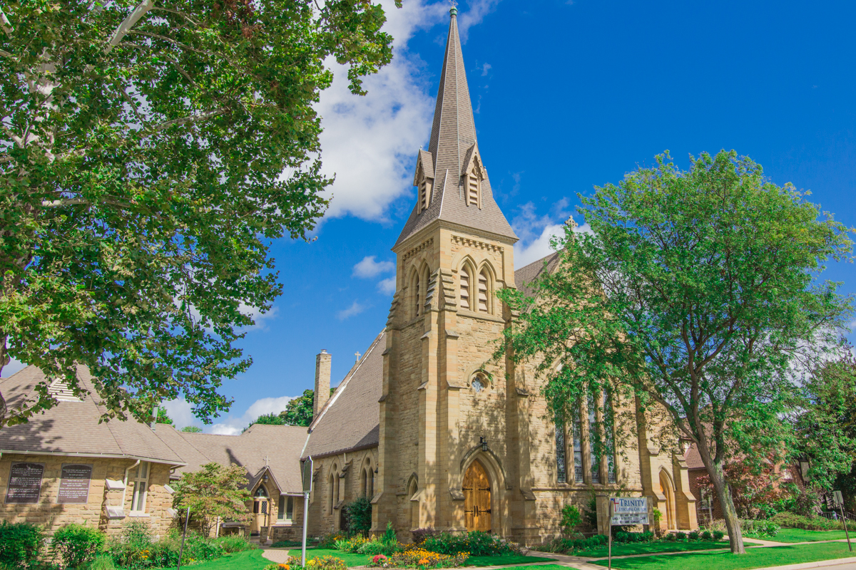 100px